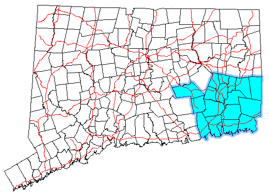 Map of Connecticut with the “Southeastern Conn” planning region highlighted (Office of Policy and Management)